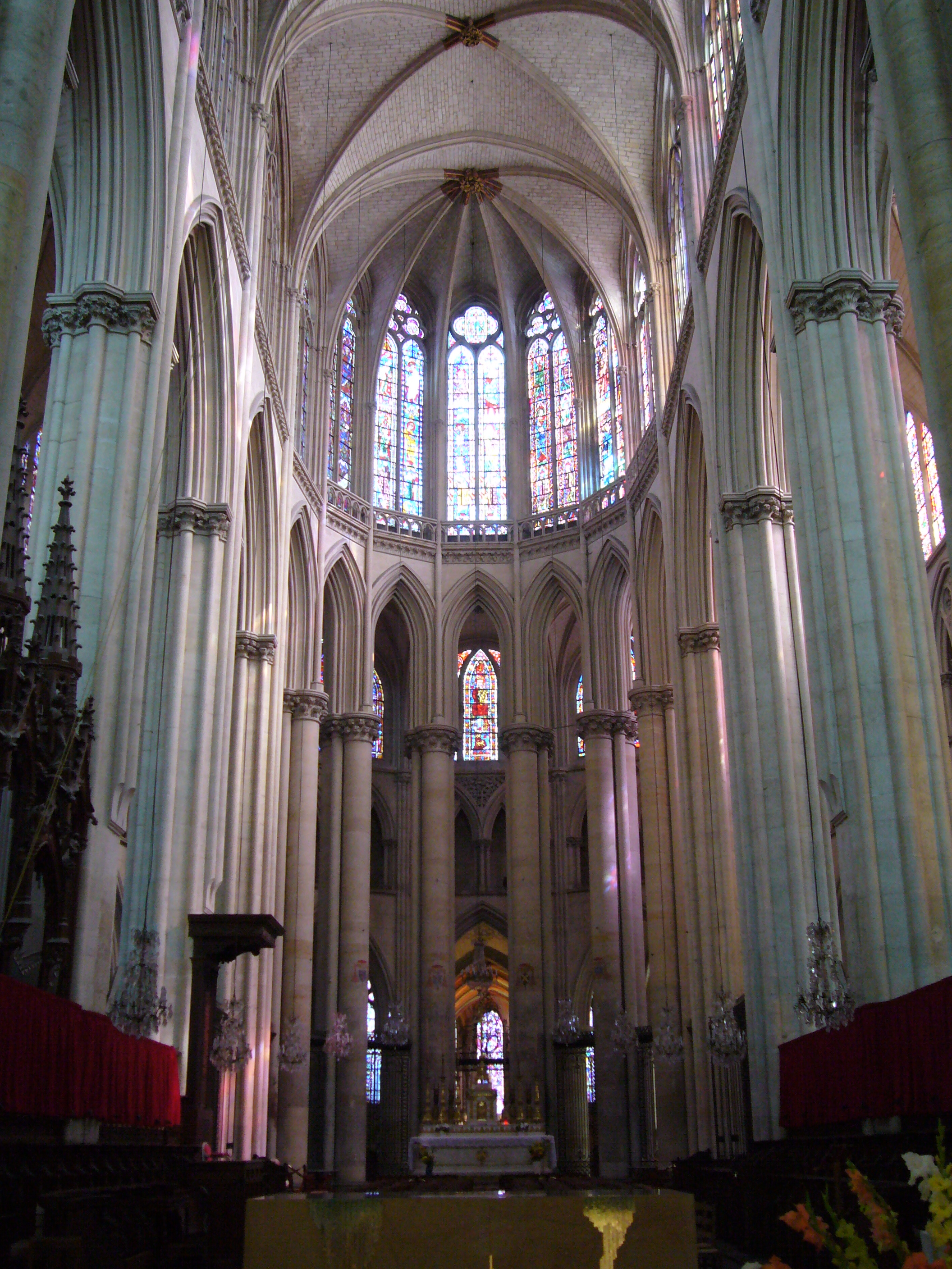 Le Mans cathedral, interior